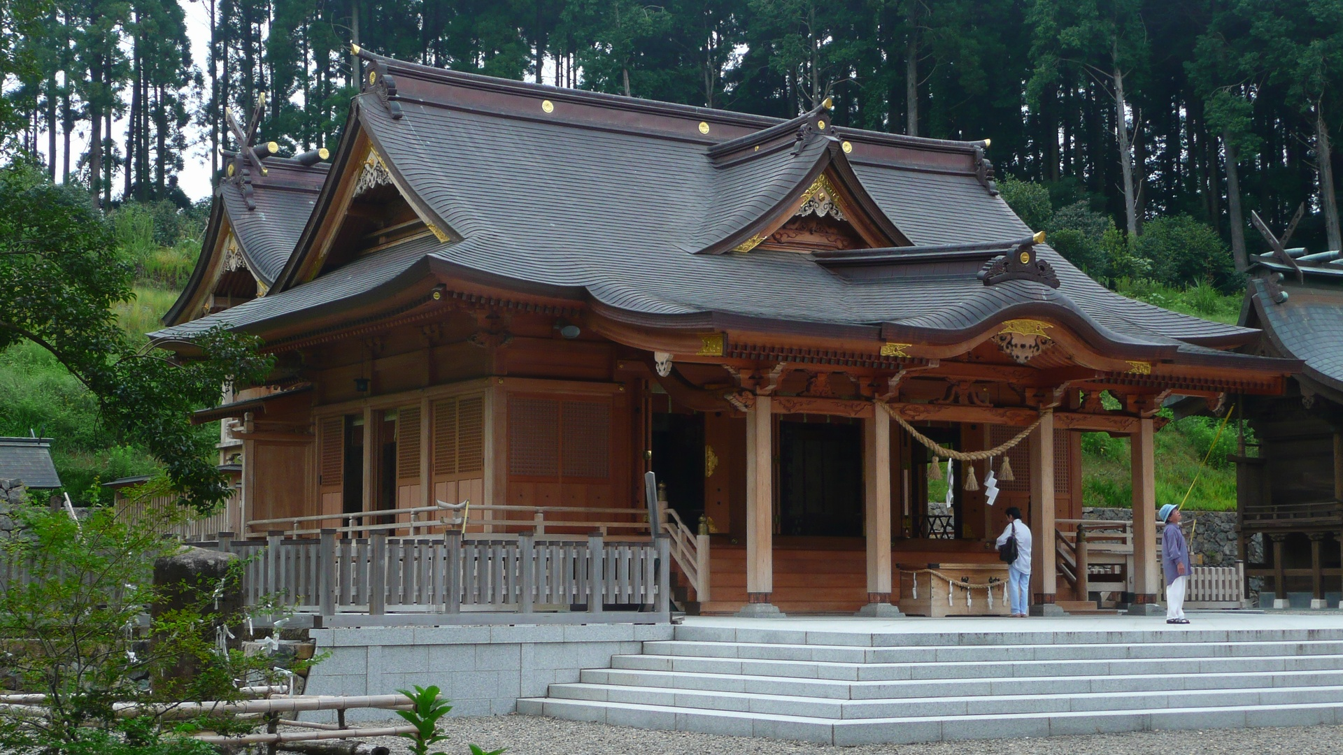 Tsuno Shrine (Tsuno Town, Miyazaki, Japan)